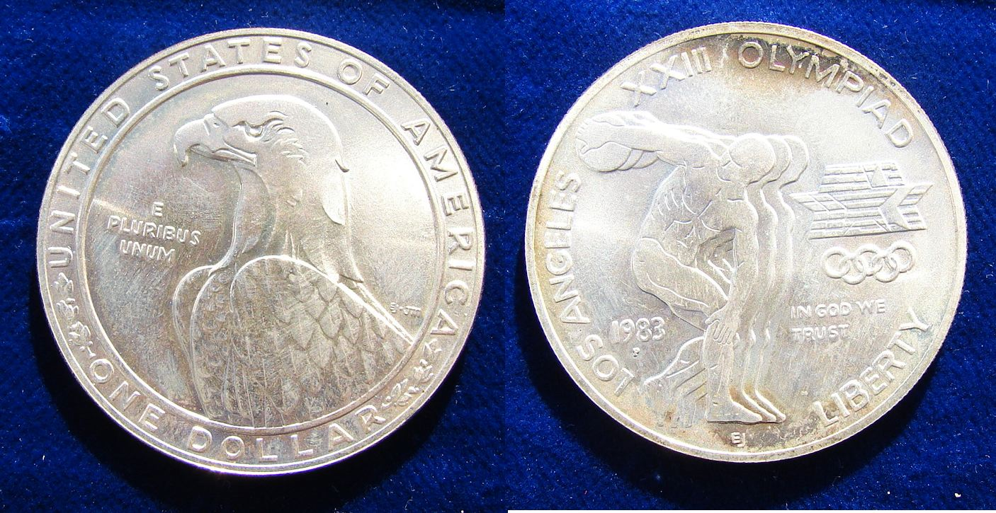 26.92 g Ag 0.900 Commemorating the Olympic Games 1984. Eagle head l., surrounding: "UNITED STATES OF AMERICA ONE DOLLAR". 3 lines l.: "E PLURIBUS UNUM" / Discus thrower aiming r., left of the Olympic Emblem. Surrounding: "LOS ANGELES XXIII OLYMPIAD LIBERTY". Date l. of leg, 2 lines r.: "IN GOD WE TRUST". KM 209. Medallists: EJ (Elizabeth Jones), Chief Engraver US Mint, 1935 Montclair N.J. - & JM (John M. Mercanti), Sculptor, 1943 Philadelphia, USA -. Condition: UNCIRCULATED MS 65+ with a beginning toning. No hidden problems.